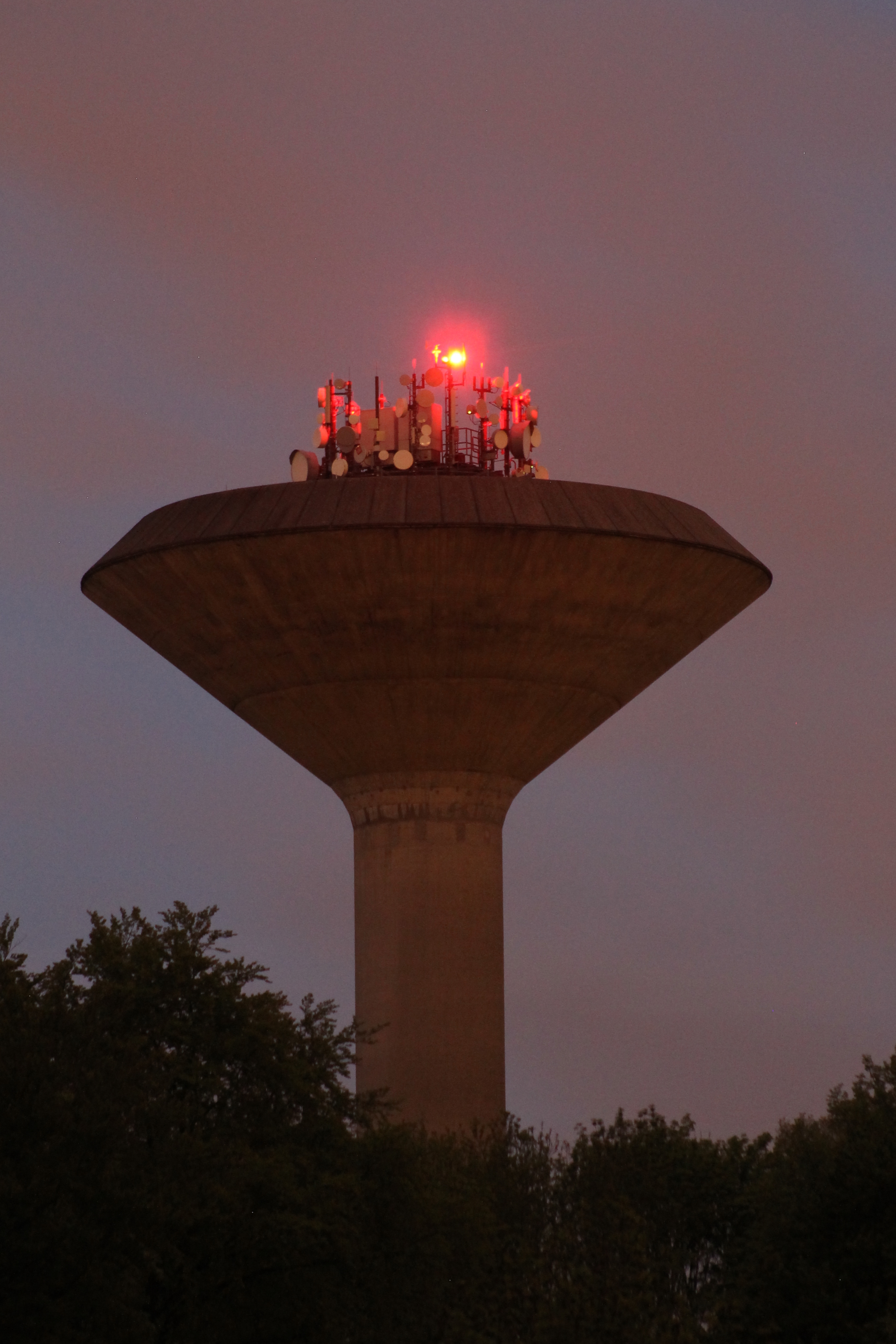 Göppingen-Eichert Water Tower at night